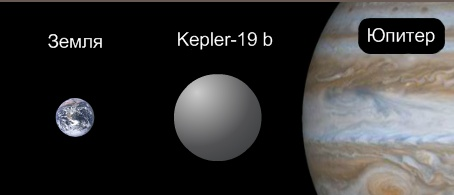 Comparative sizes of Earth, Kepler-19 b and Jupiter.